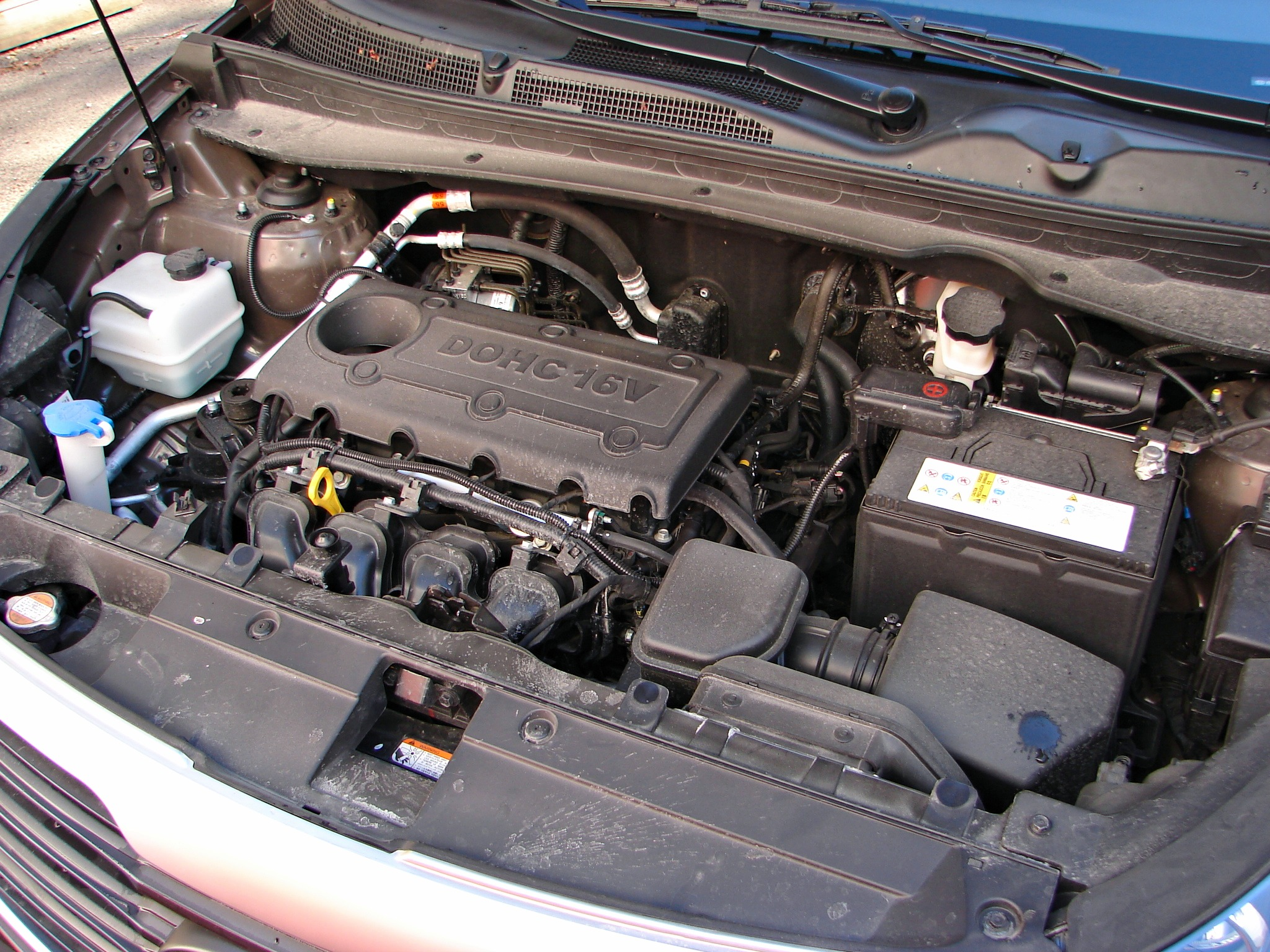 Engine of 3rd generation Kia Sportage